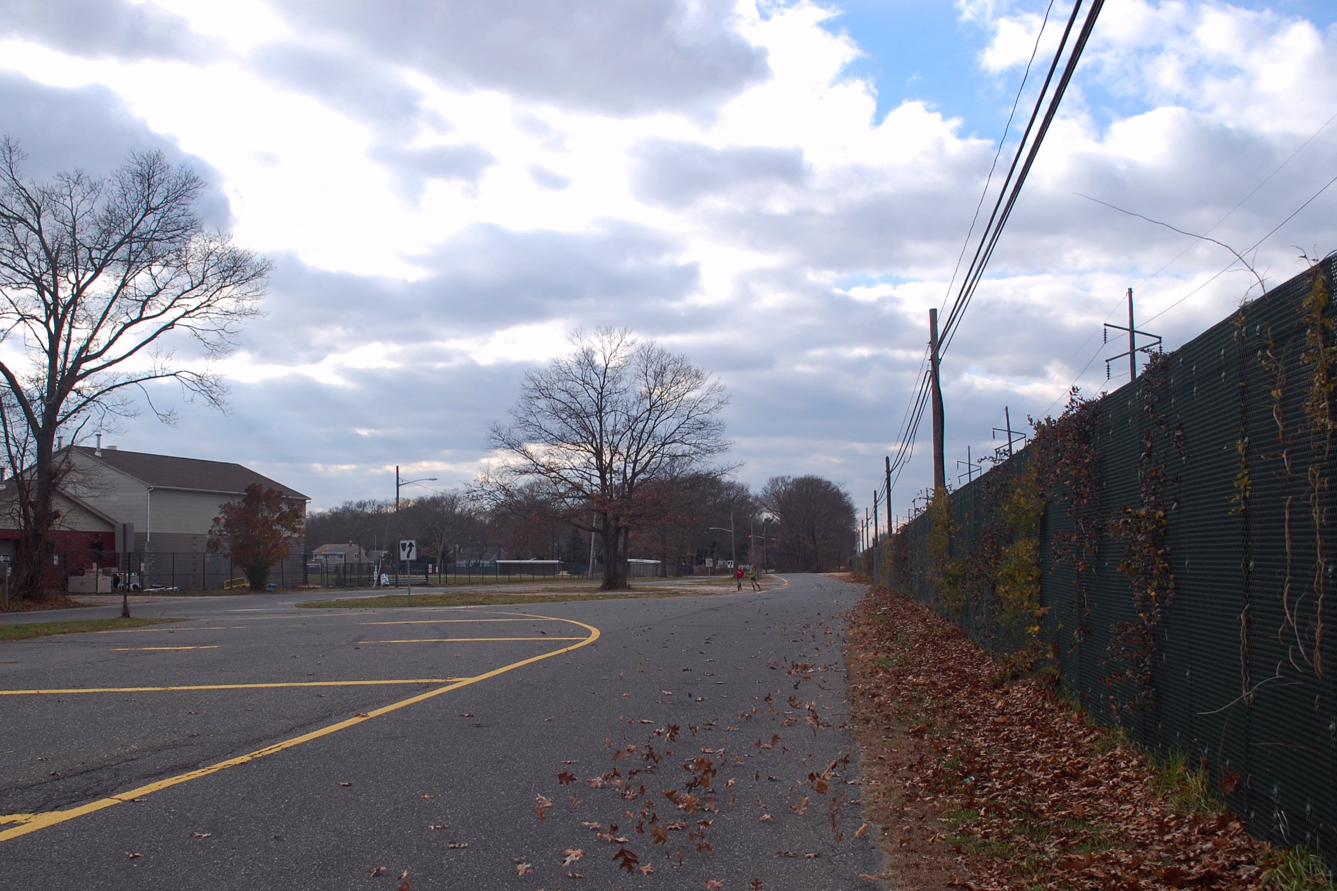 Railroad Avenue in Bayport, site of the former LIRR Montauk Line station parking lot.